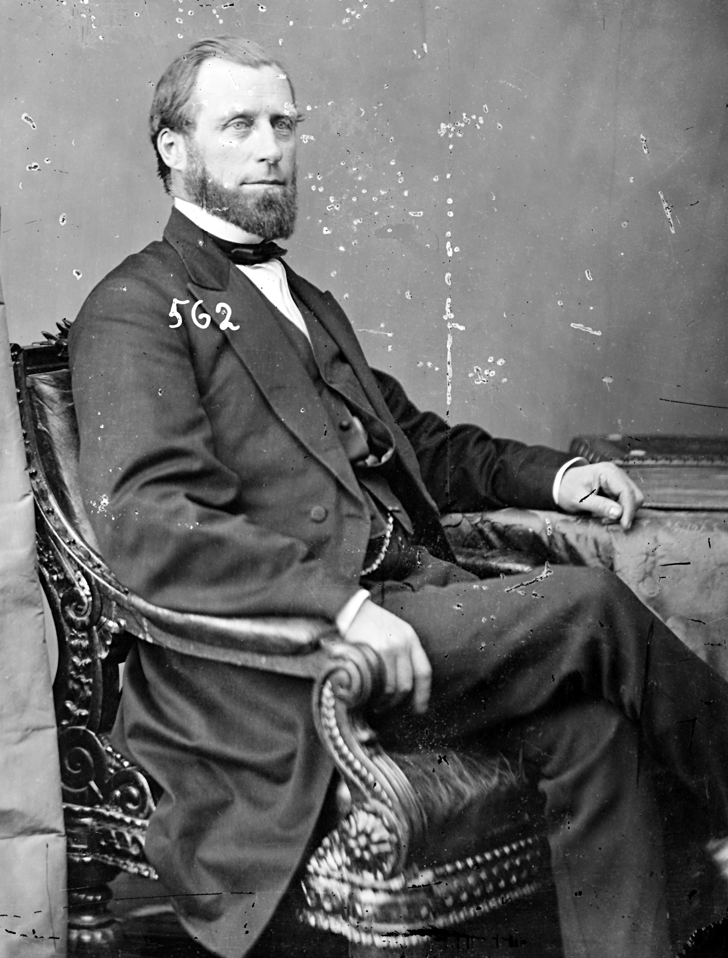 Charles A. Eldredge, US Representative from Wisconsin